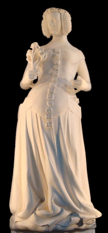 Statue of Isabeau of Bavaria, Queen consort of Charles VI of France. Palais de justice de Poitiers.